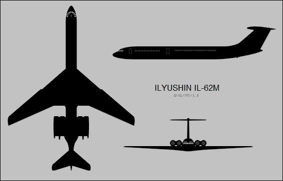 3-view silhouettes of the Ilyushin Il-62M